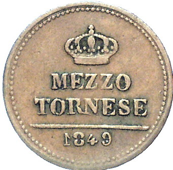 Kingdom of the Two Sicilies 1849 coin - half tornese (reverse)